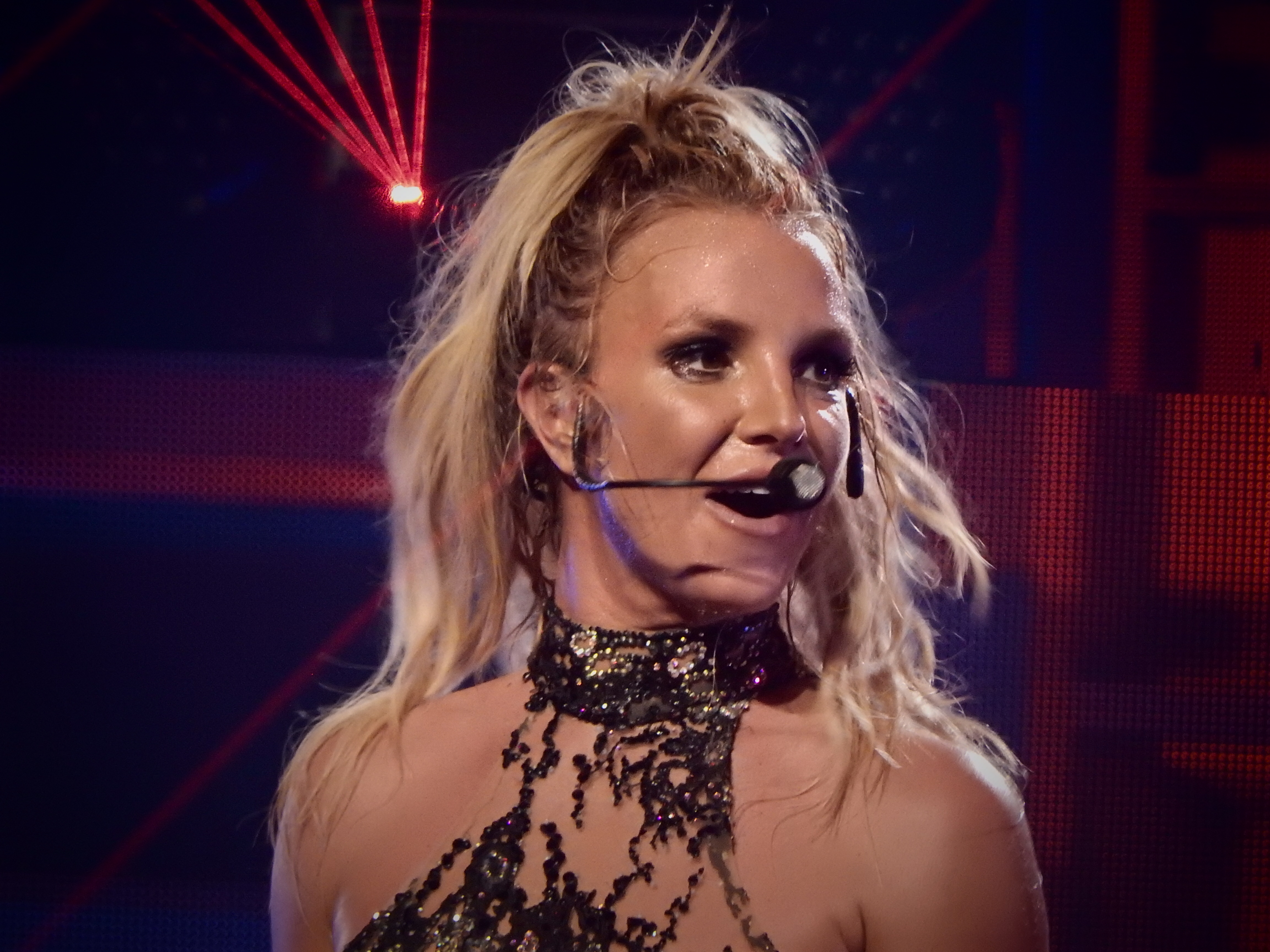 Britney Spears, Roundhouse, London (Apple Music Festival 2016)